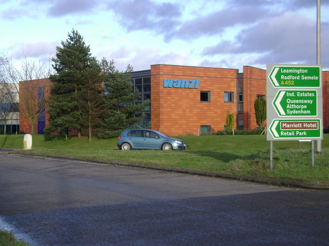 A452 Europa Way, Warwick The acceptable face of the Heathcote industrial estate, by the Gallows Hill island. Wanzl are believed to manufacture supermarket trolleys and checkout equipment.